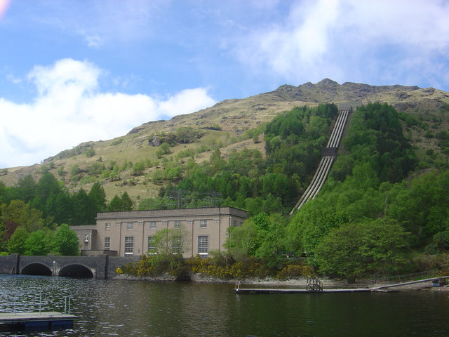 Loch Sloy hydro-electric power station. Photo taken from Inveruglas visitor centre.